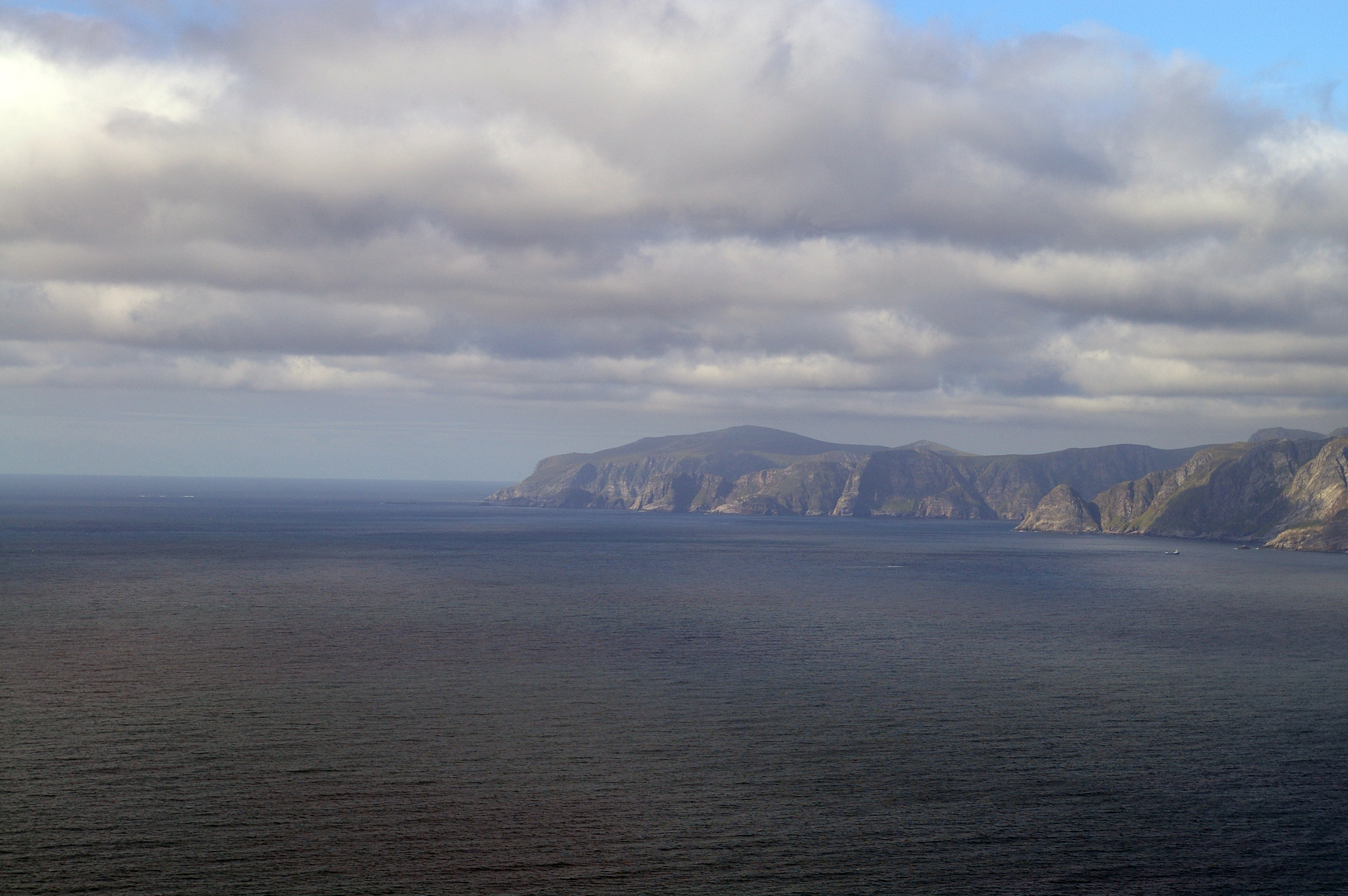 Stad in Selje, Sogn og Fjordane, Norway. Seen from Vågsøy.